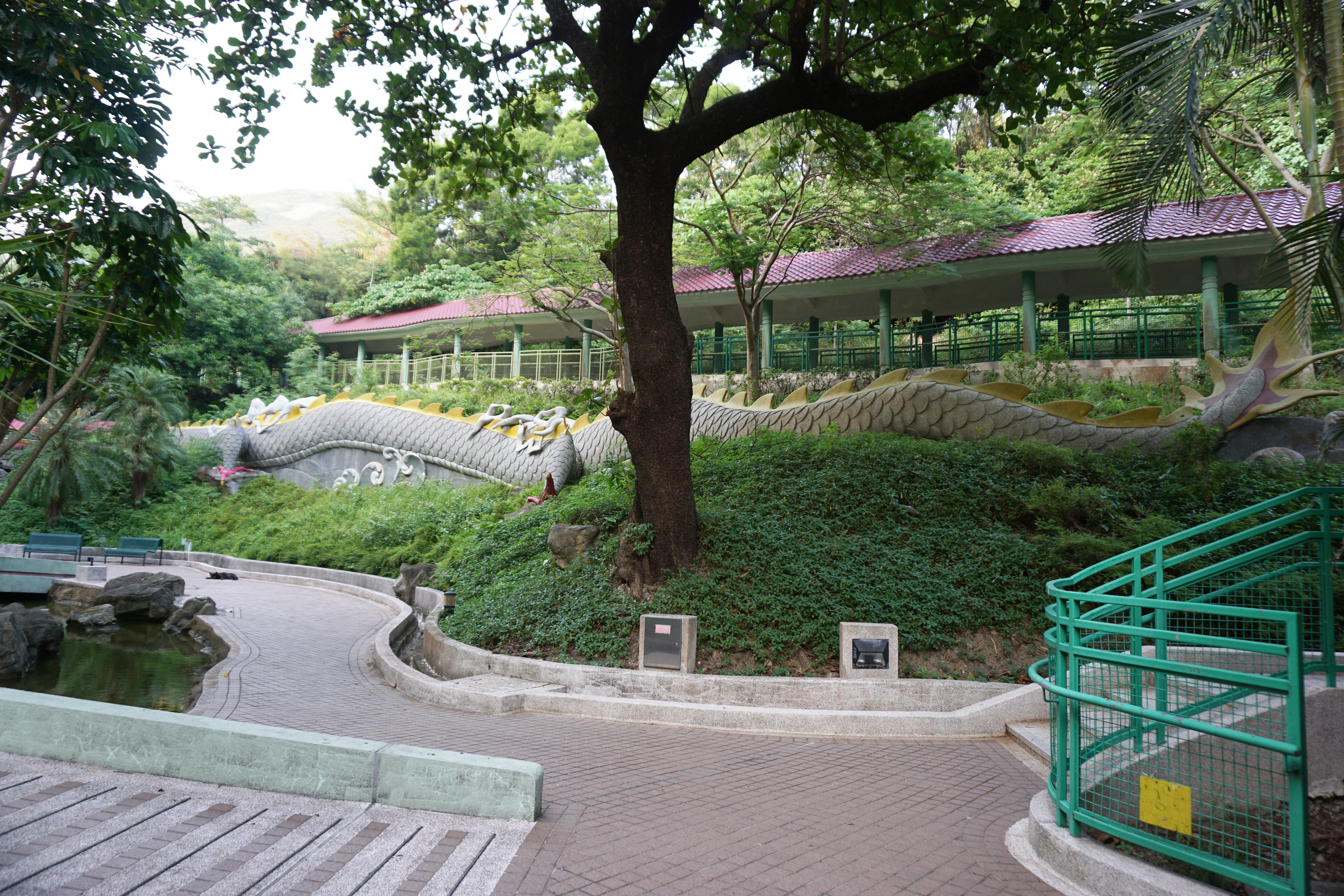 Lung Tak Court in Stanley, Hong Kong.